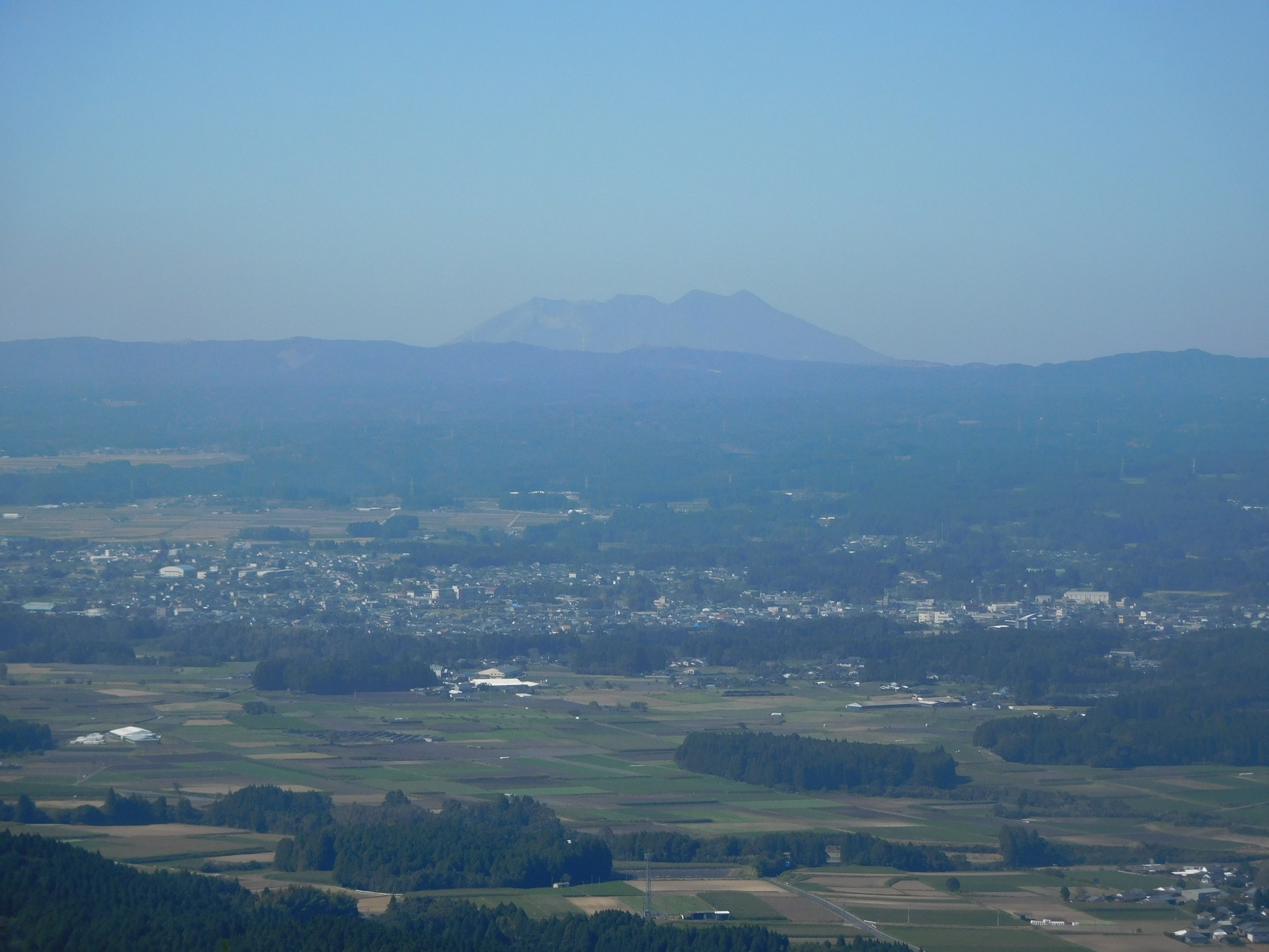 Viewing of Sueyoshi, Soo City, Kagoshima Prefecture from Kanemi-dake, Miyakonojo City, Miyazaki Prefecture, Japan